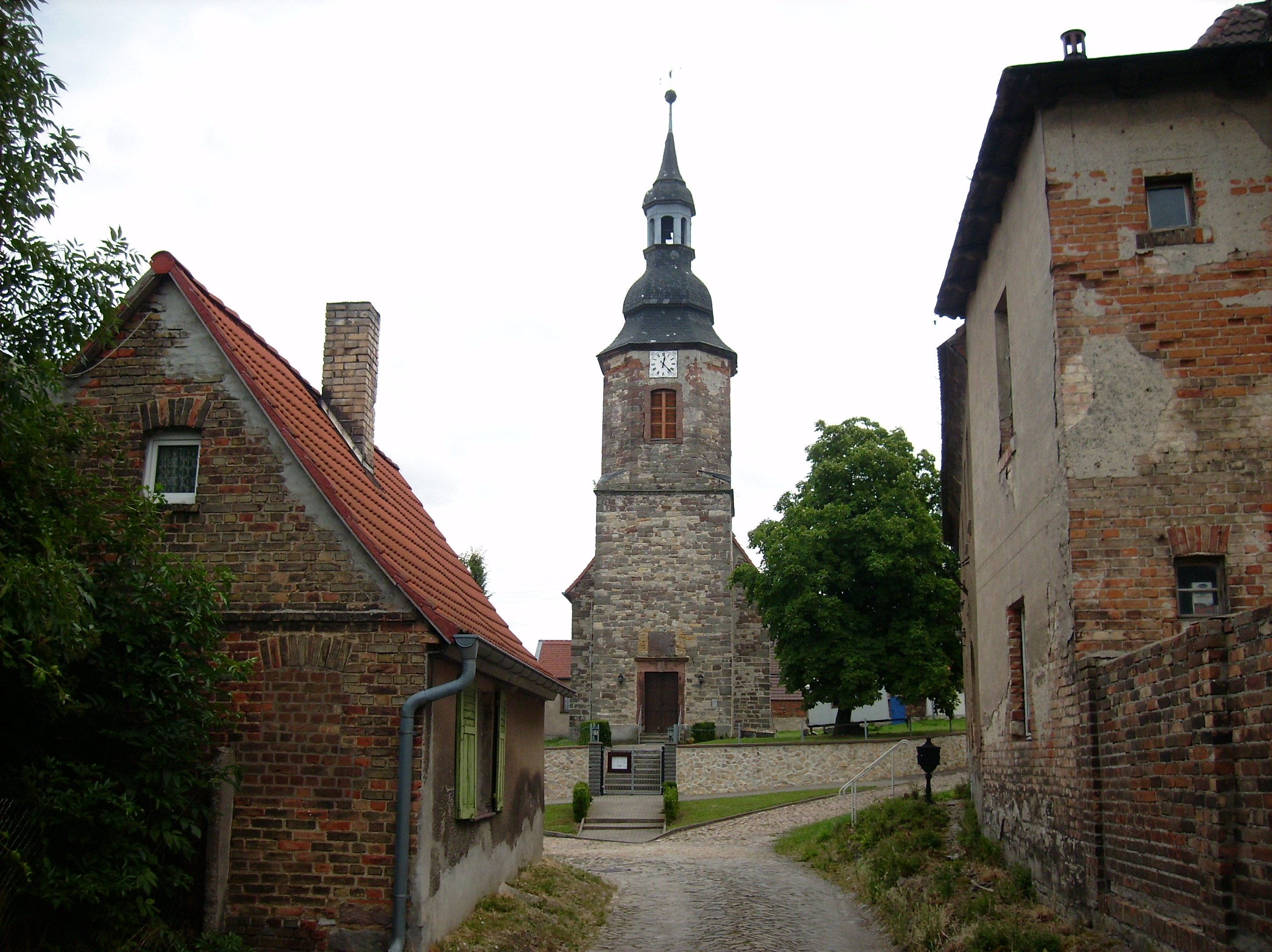 Church of the village of Oechlitz (Mücheln/Geiseltal, district of Saalekreis, Saxony-Anhalt), view from the west